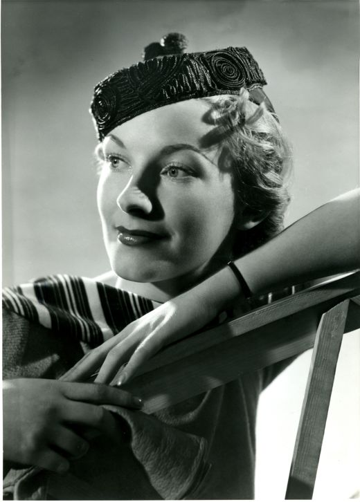 Fashion model Karin Stilke in a professional traditional fashion shooting by photographer Yva about 1936 in Berlin